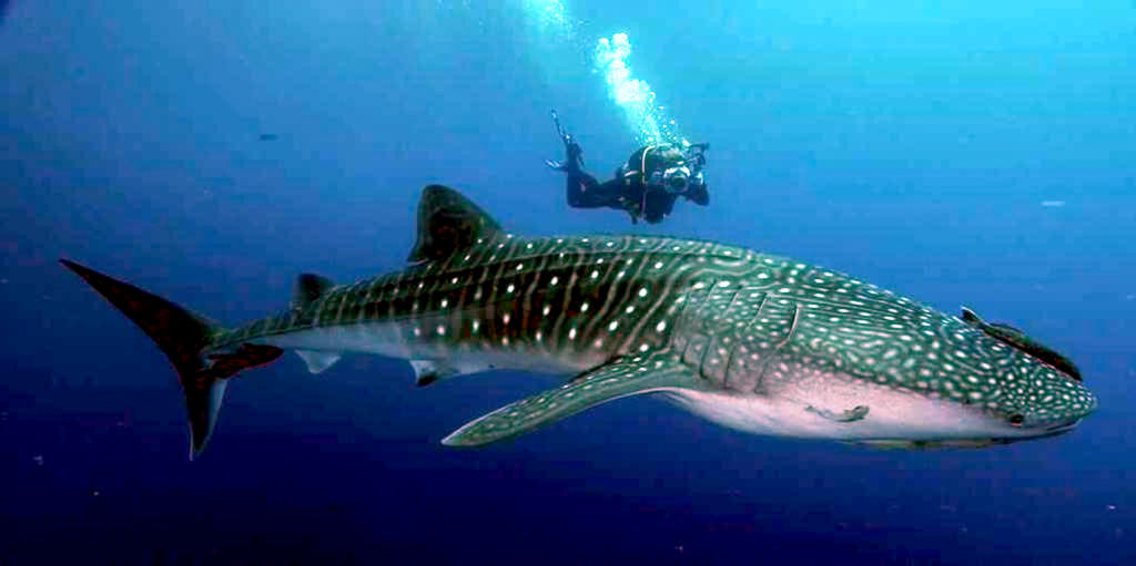 A whaleshark visits Koh Tao, Thailand.